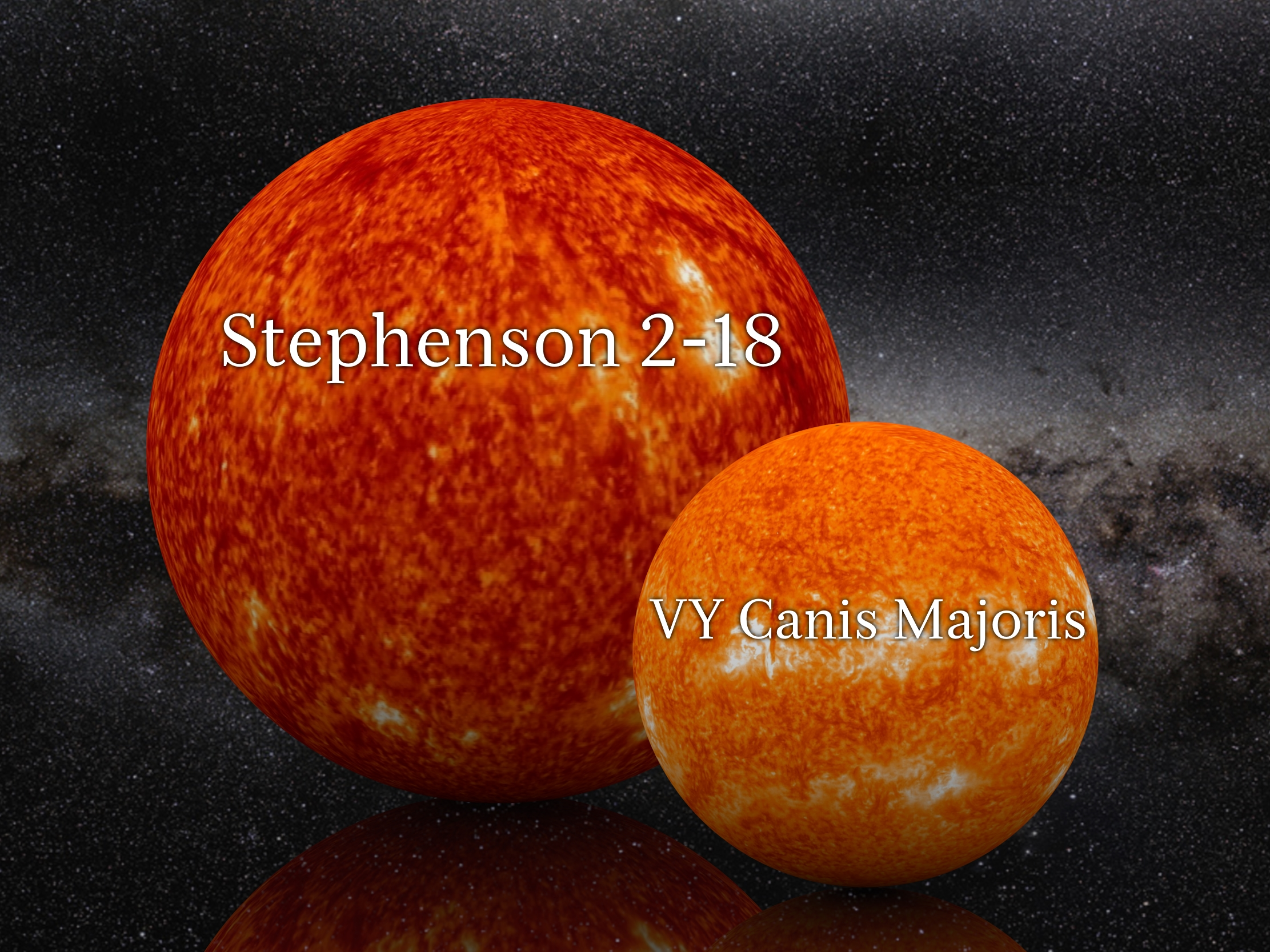 An accurate comparison showing the red hypergiants Stephenson 2-18 and VY Canis Majoris.